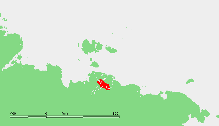 location map